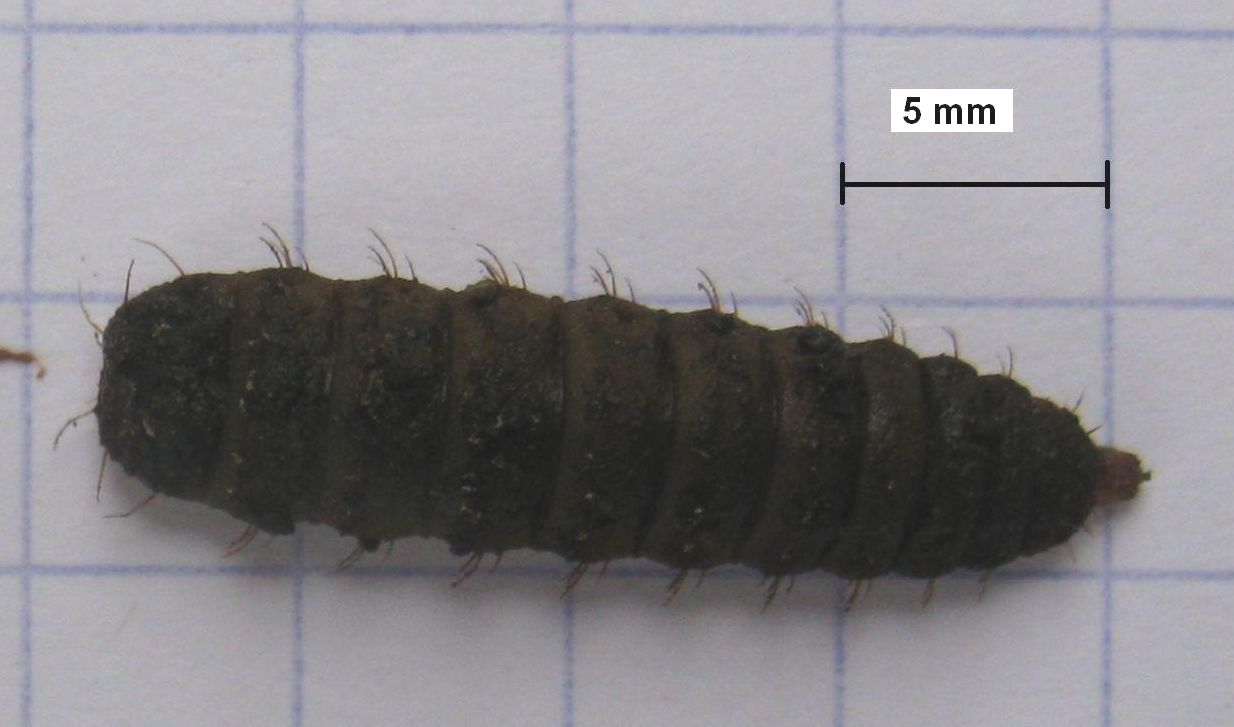 Hermetia Illucens (black soldier fly) (sixth instar larva) (Prepupae)